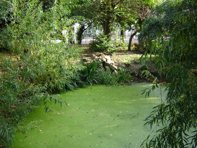 The New River in Clissold Park, Stoke Newington, Hackney, London. This is the point at which the river goes underground to reappear south of St Paul's Road in Islington. 4 September 2005. Photographer: Fin Fahey.